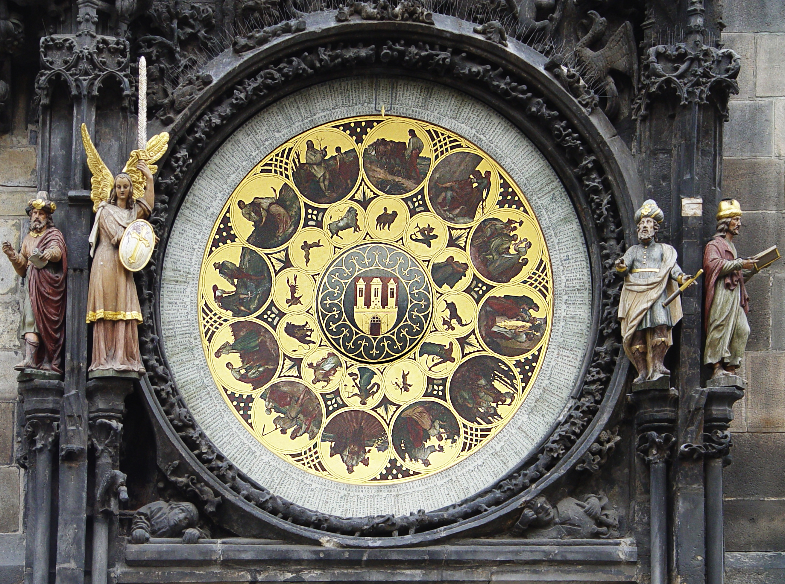 Prague - Astronomical Clock Detail, calendar from the 19th century